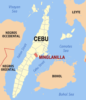 Map of Cebu showing the location of Minglanilla